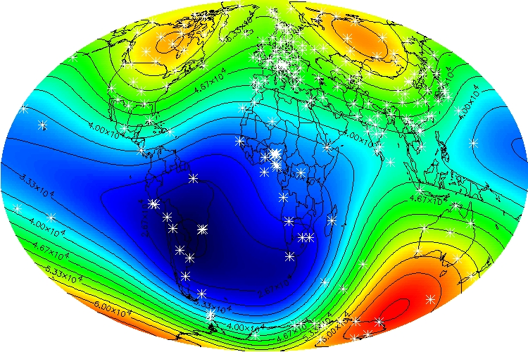 Global Magnetic Field IGRF 2000